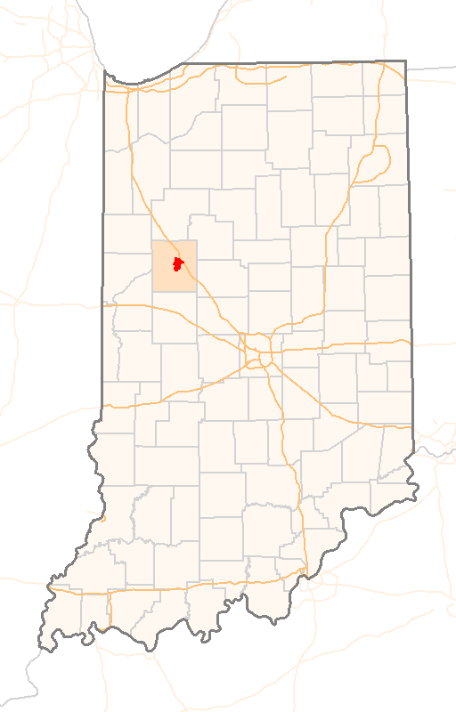 Red Dot map of Indiana, showing the location of Lafayette